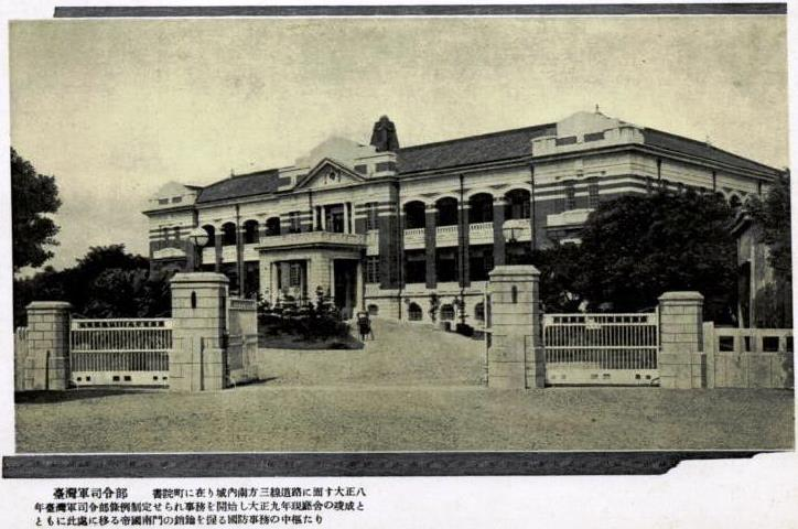 Taiwan Army Headquarters of IJA(Imperial Japanese Army)中文（台灣）: 臺灣軍司令部